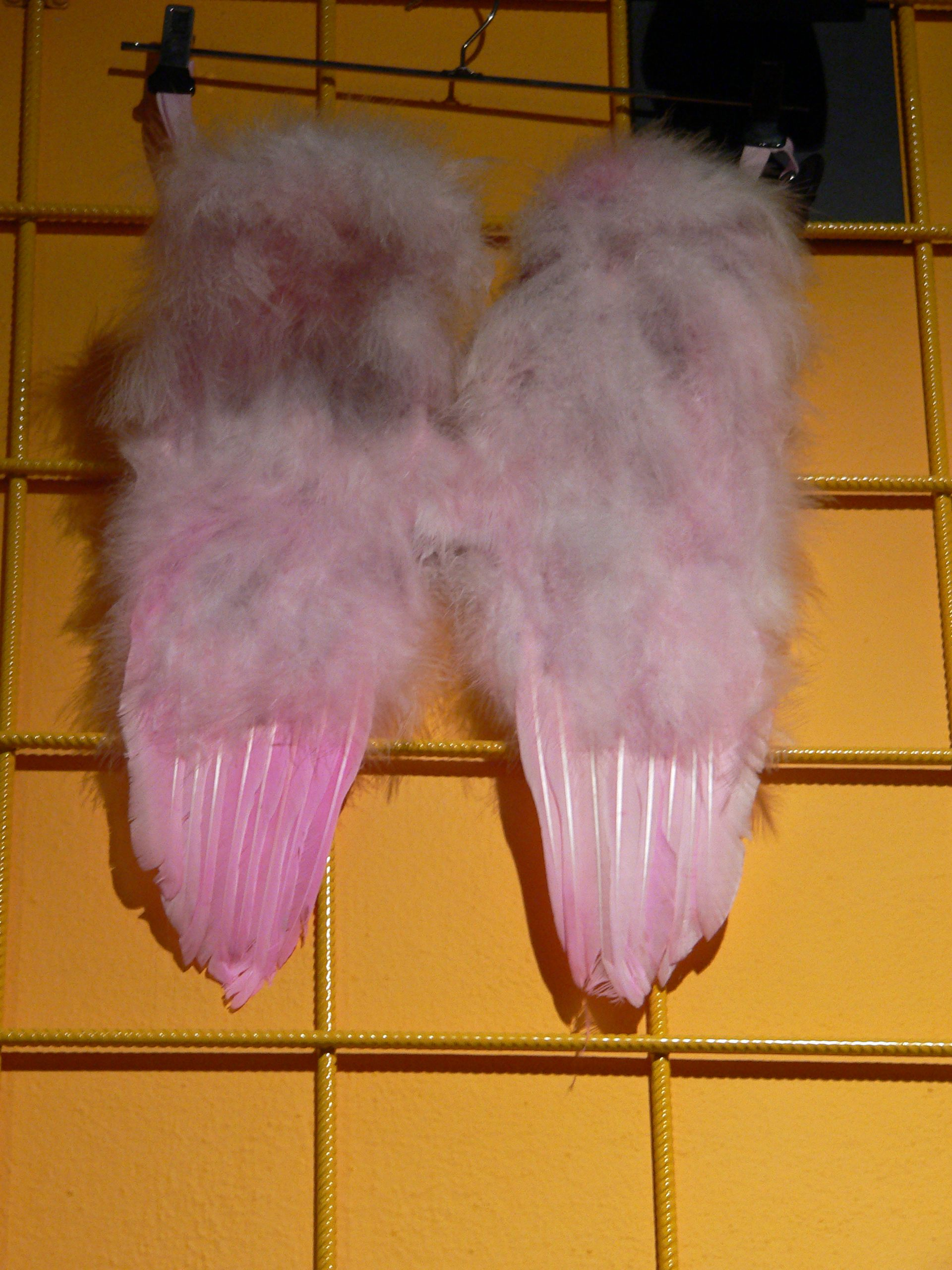 Elements of Gothic fashion None of these photographs would have been possible without the kind autorisation of the store Maniak at the Flon in Lausane, to which we express our thanks.